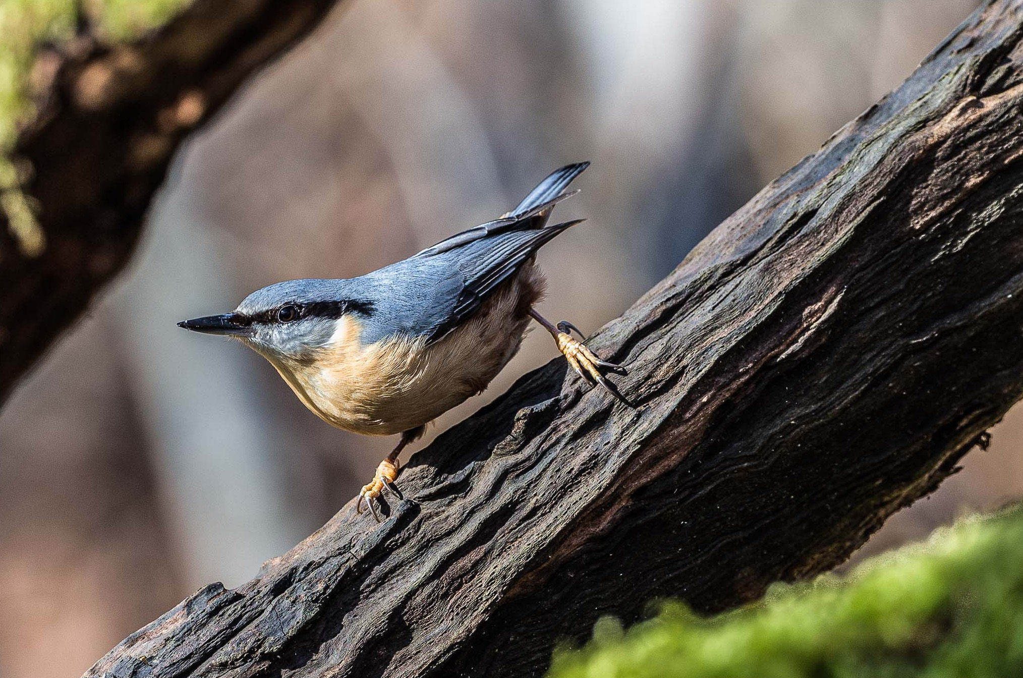 A Eurasian Nuthatch in Kent, England.